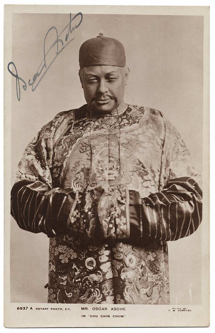 Postcard of Oscar Asche in Chu Chin Chow, 1916